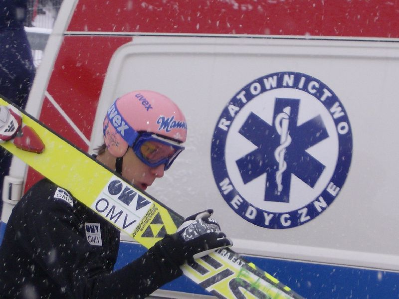 ski jumper Martin Koch from Austria during the World Cup in Zakopane on 27-1-2008